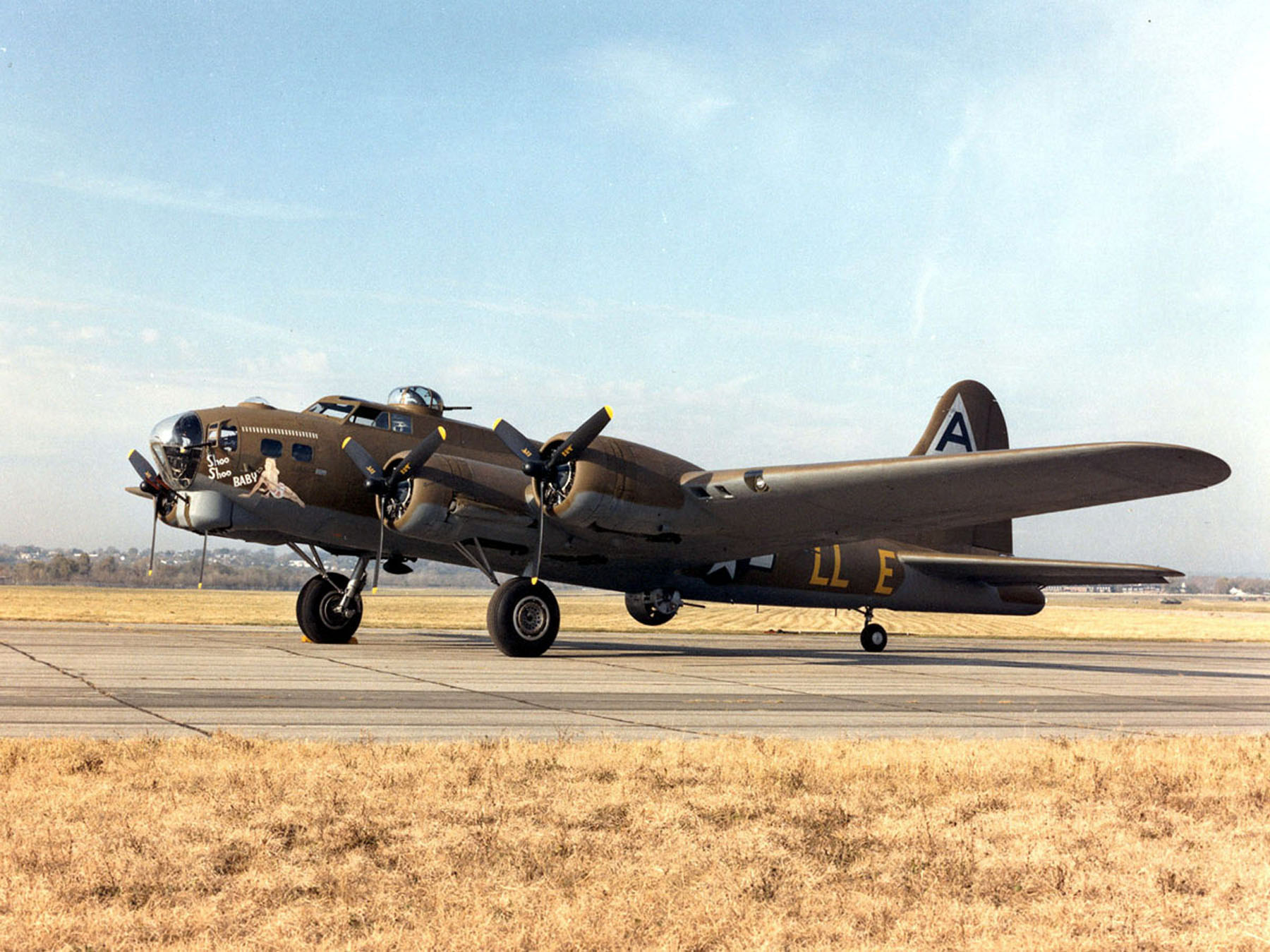 DAYTON, Ohio -- Boeing B-17G Flying Fortress "Shoo Shoo Shoo Baby" at the National Museum of the United States Air Force.